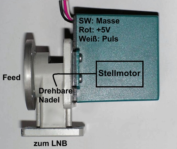 Feed horn antenna used on a satellite dish, also called a LNB (low noise block converter). The satellite transmits data on two channels using the two perpendicular linear polarization modes of the microwaves. The device contains a polarizer consisting of a short rod which can be rotated 90° by a motor to receive either polarization.